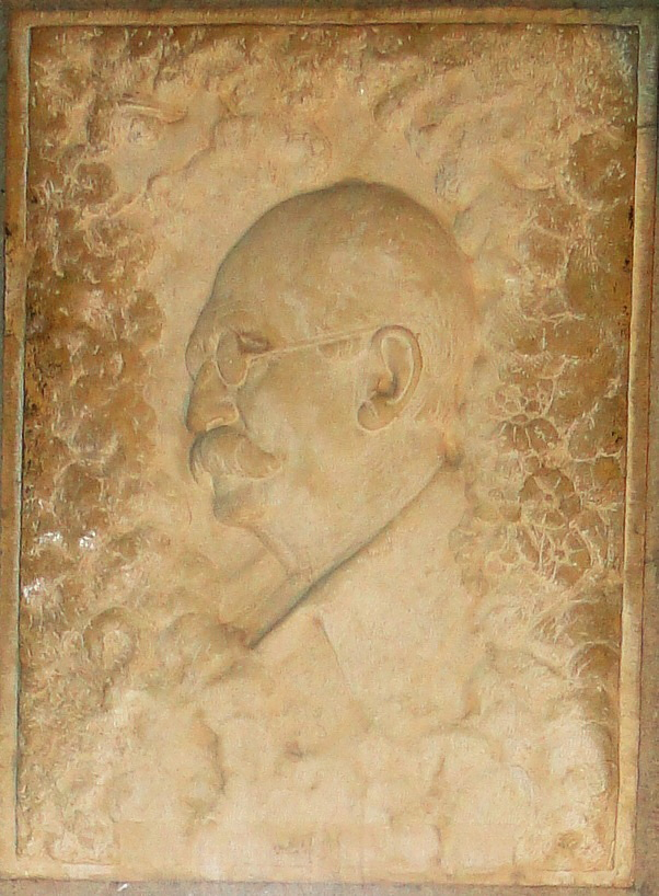 Kamal_Al-_Molk_Statute_on_his_grave.